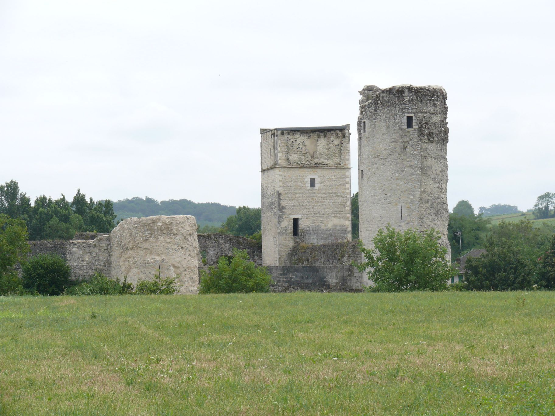 The castle of Bellocq (Pyrénées-Atlantiques, Aquitaine, France).